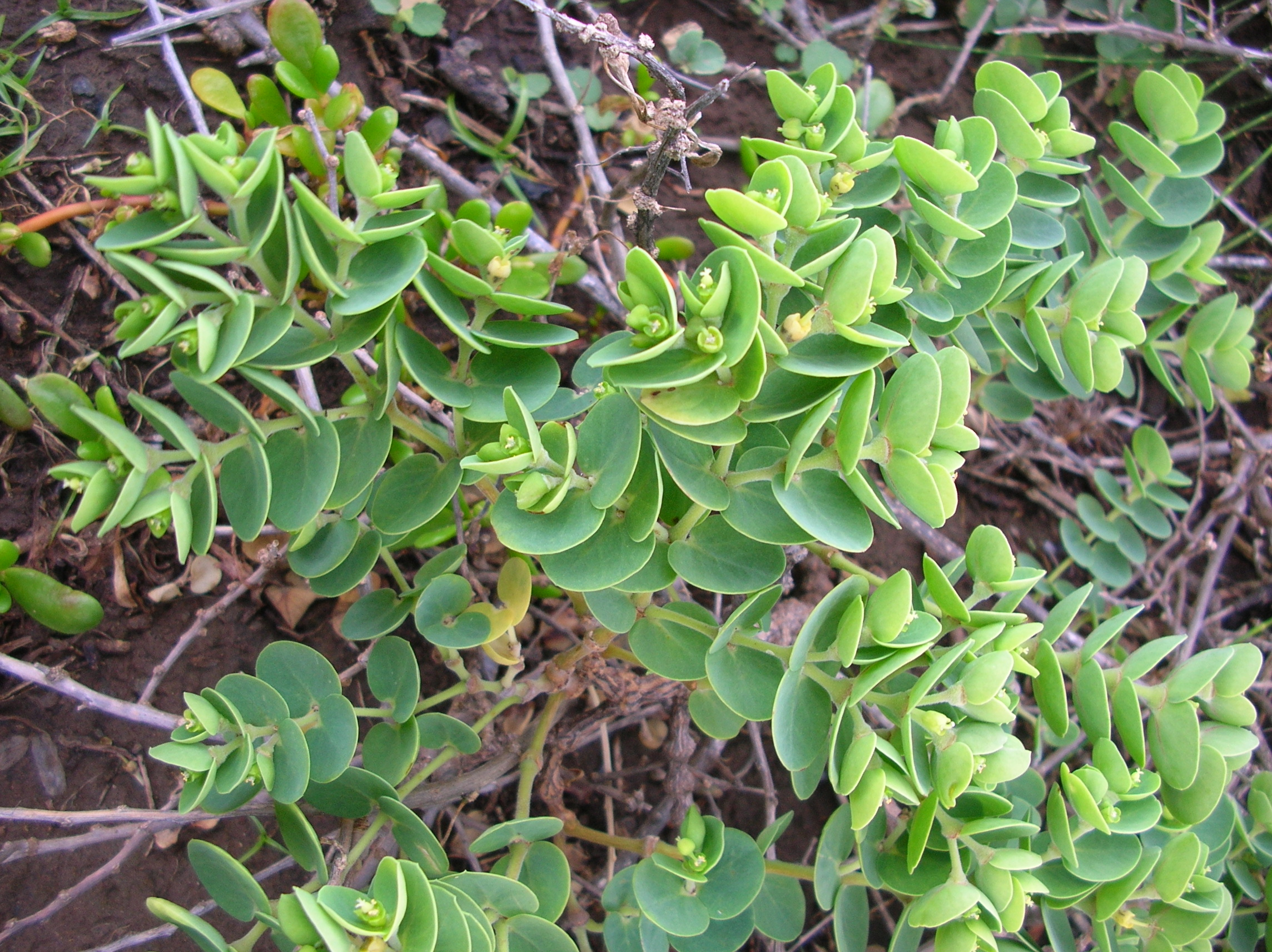 Chamaesyce degeneri (habit). Location: Maui, Punalau